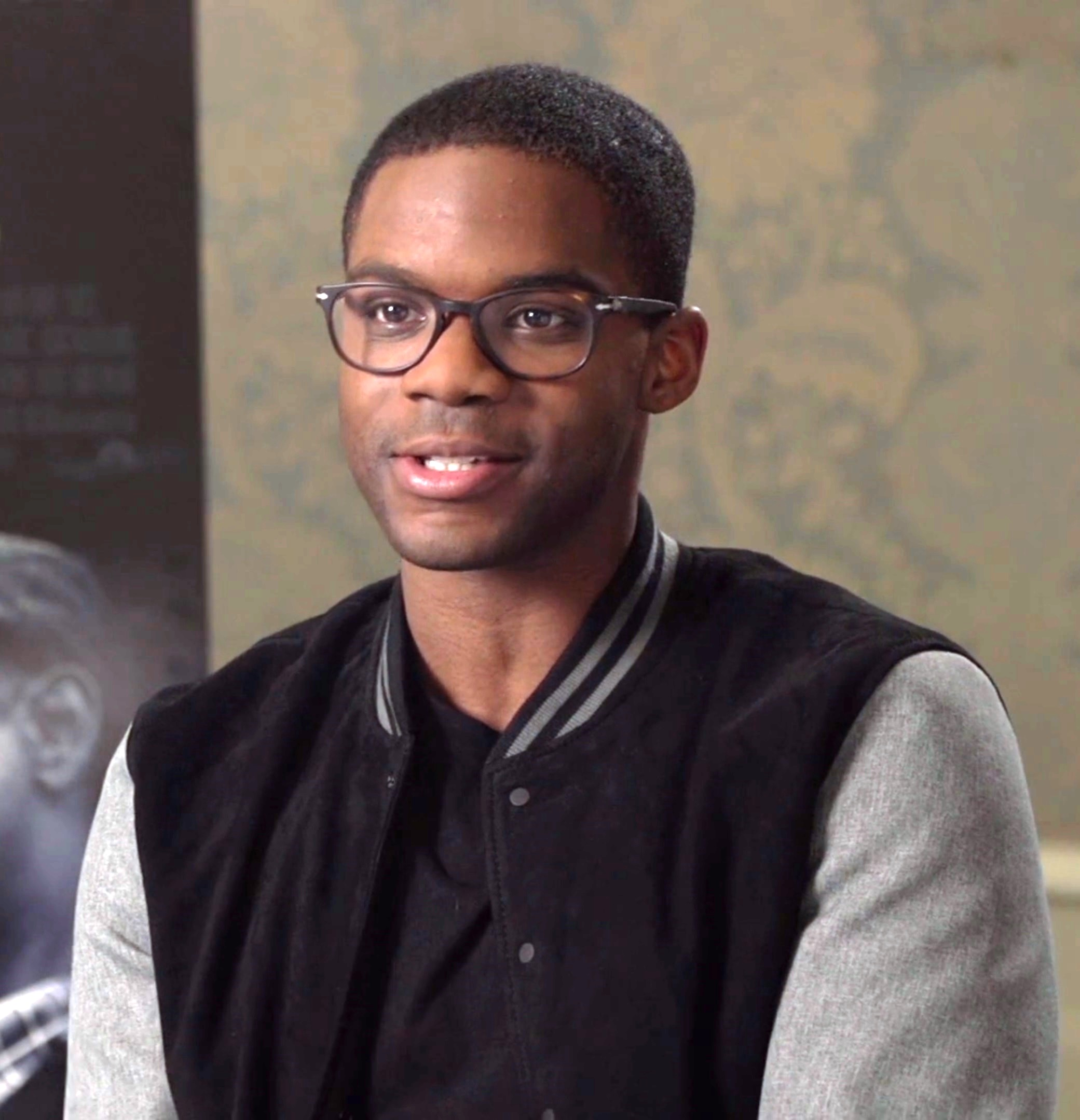 English-American actor Jovan Adepo interviewed by AM FM Studios about his film Fences in 2016.